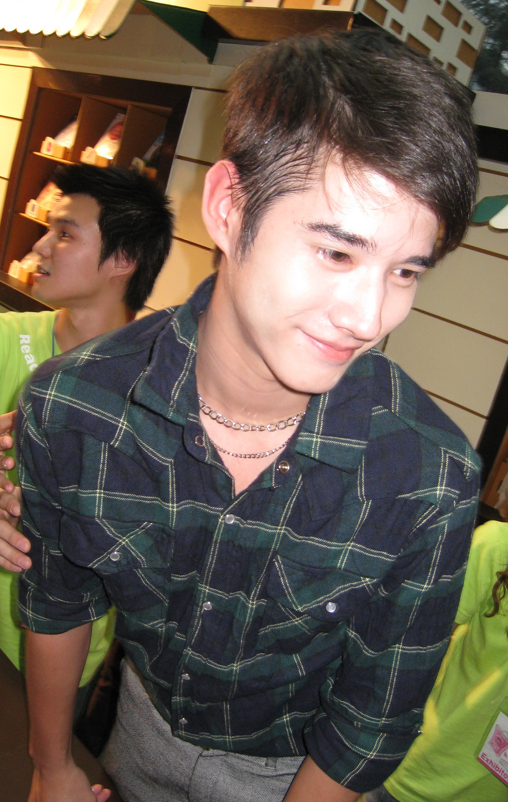 Mario Maurer at Book expo 2008